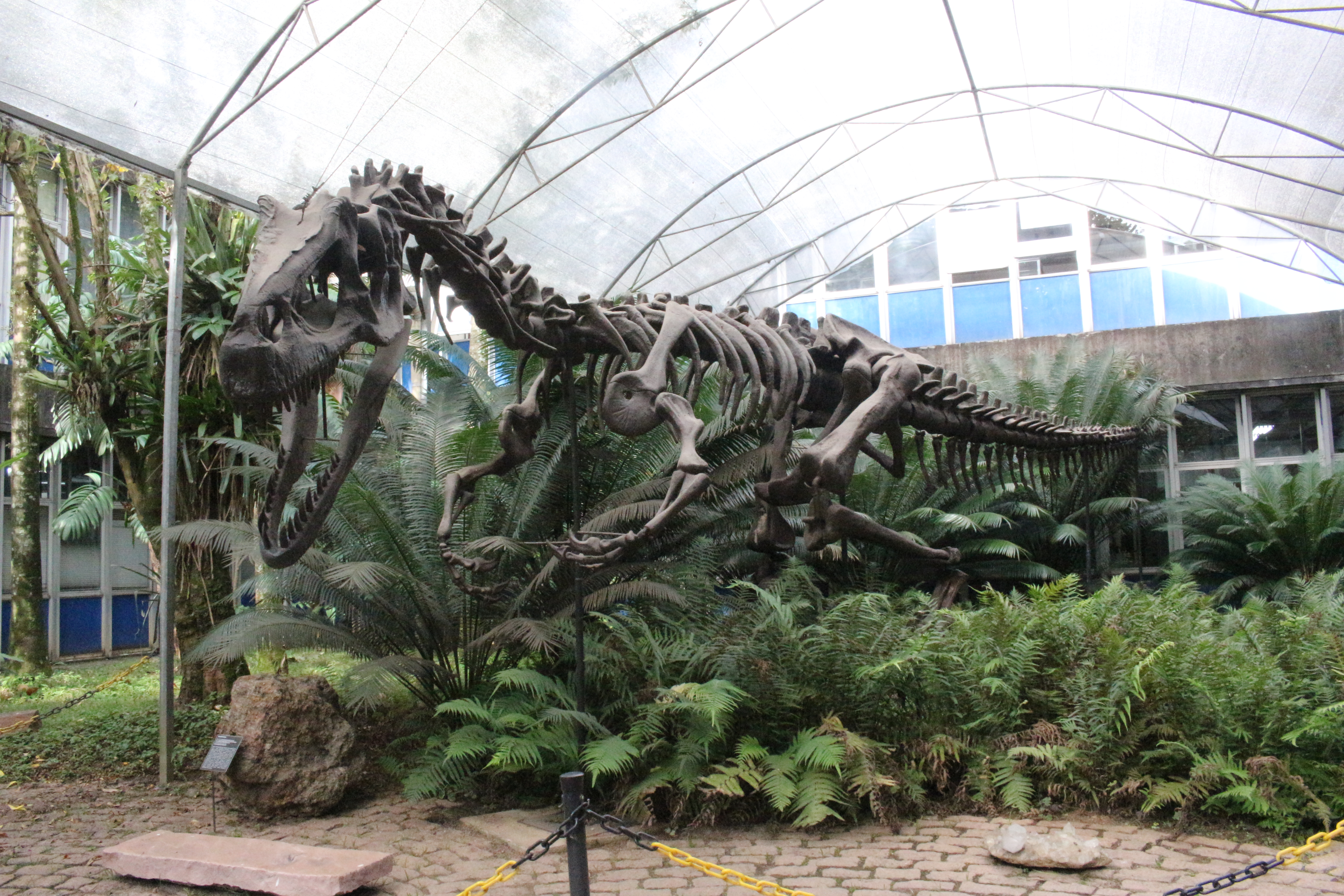 Dinosaur that is not garden of the Museum of Geosciences of the Institute of Geociências of USP